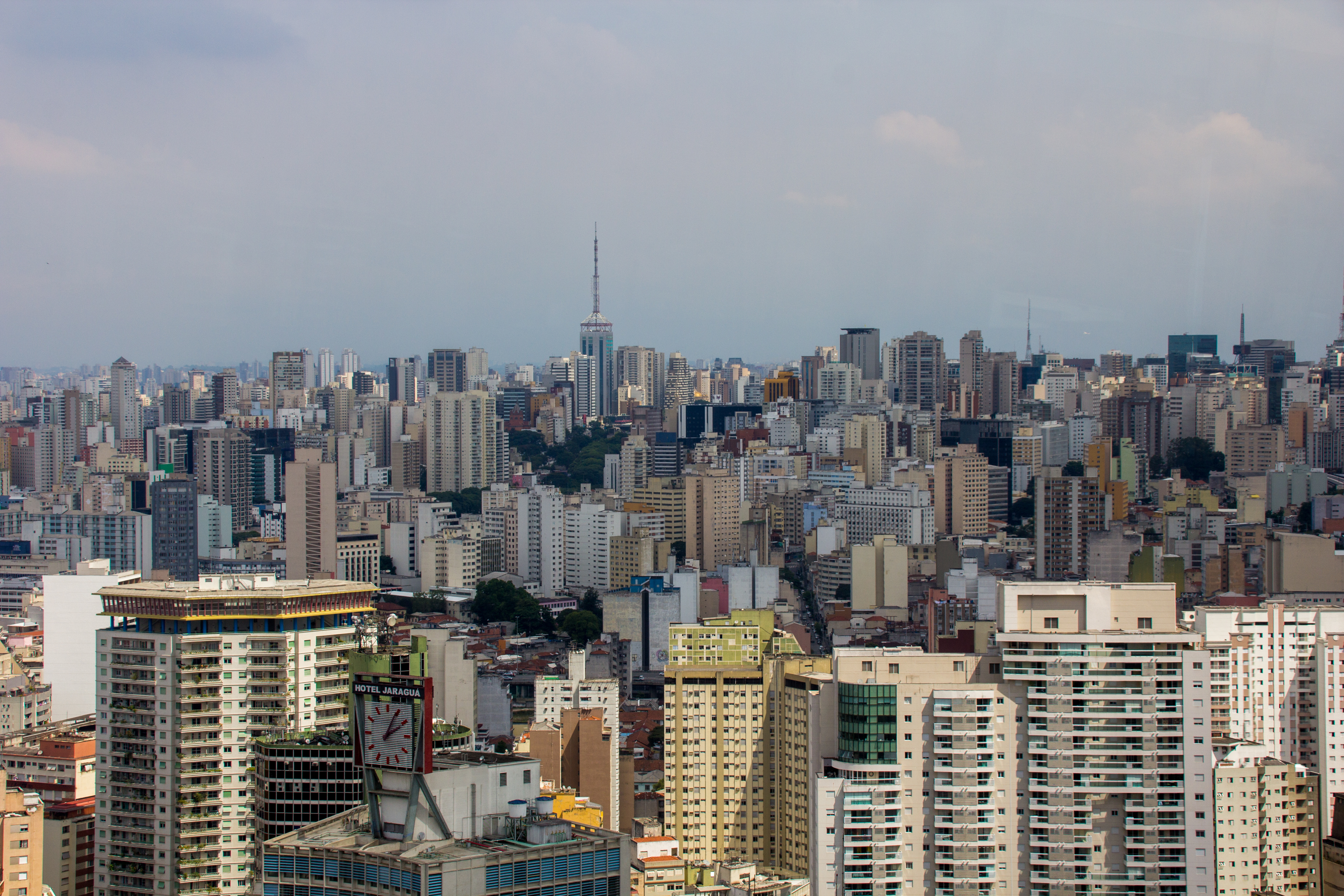 Views from Edifício Itália, São Paulo, Brazil